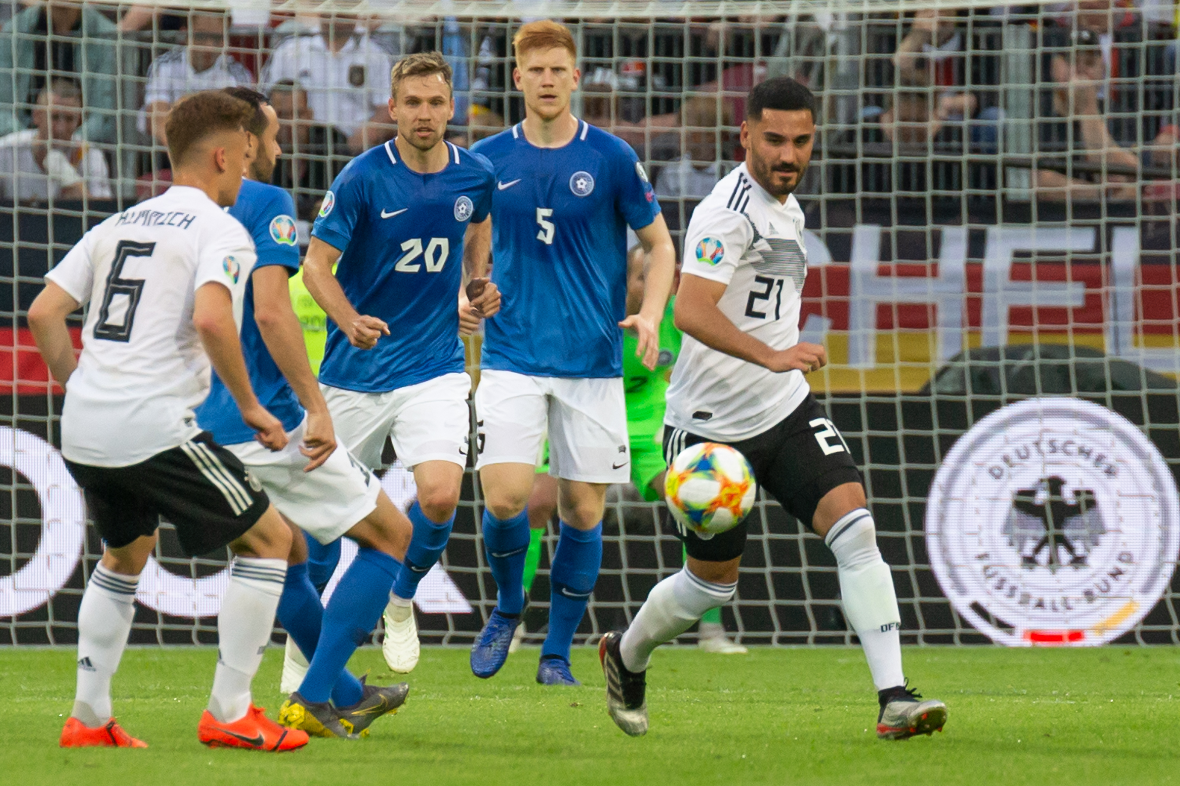 UEFA Euro 2020 qualifier Germany-Estonia